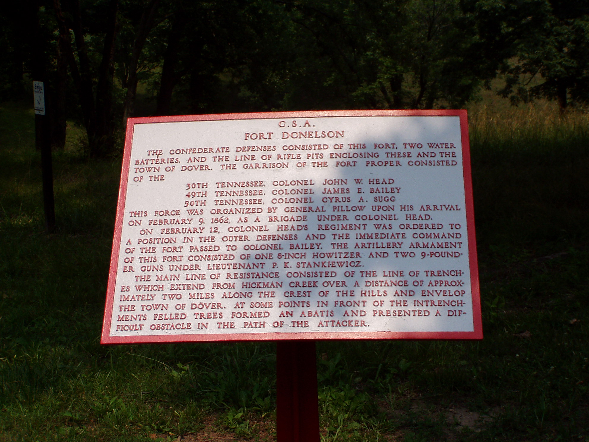 CSA Information sign at Fort Donelson National Battlefield, Stop #2